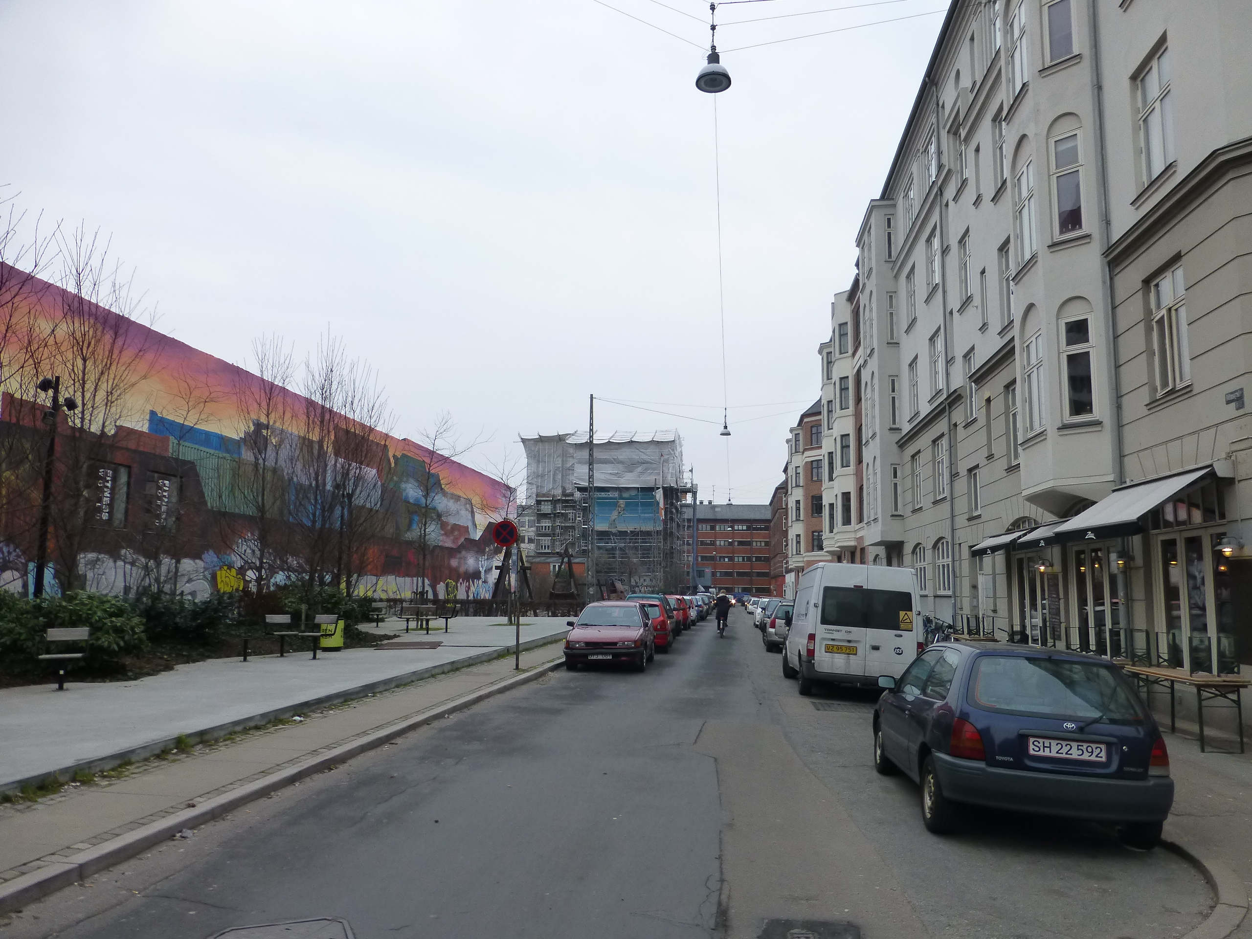 Odinsgade is a street in Nørrebro in Copenhagen.